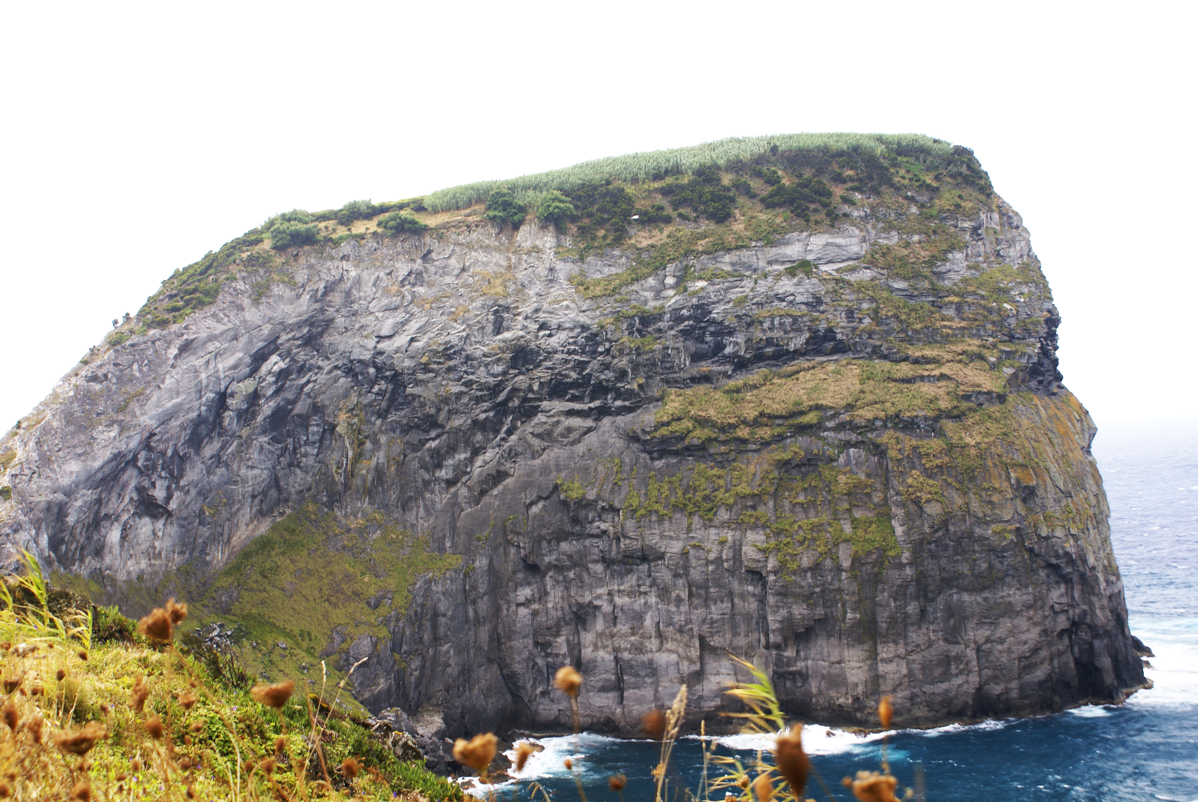 Morro de Castelo Branco, pormenor, Castelo Branco, concelho da Horta, ilha do Faial, Açores, Portugal